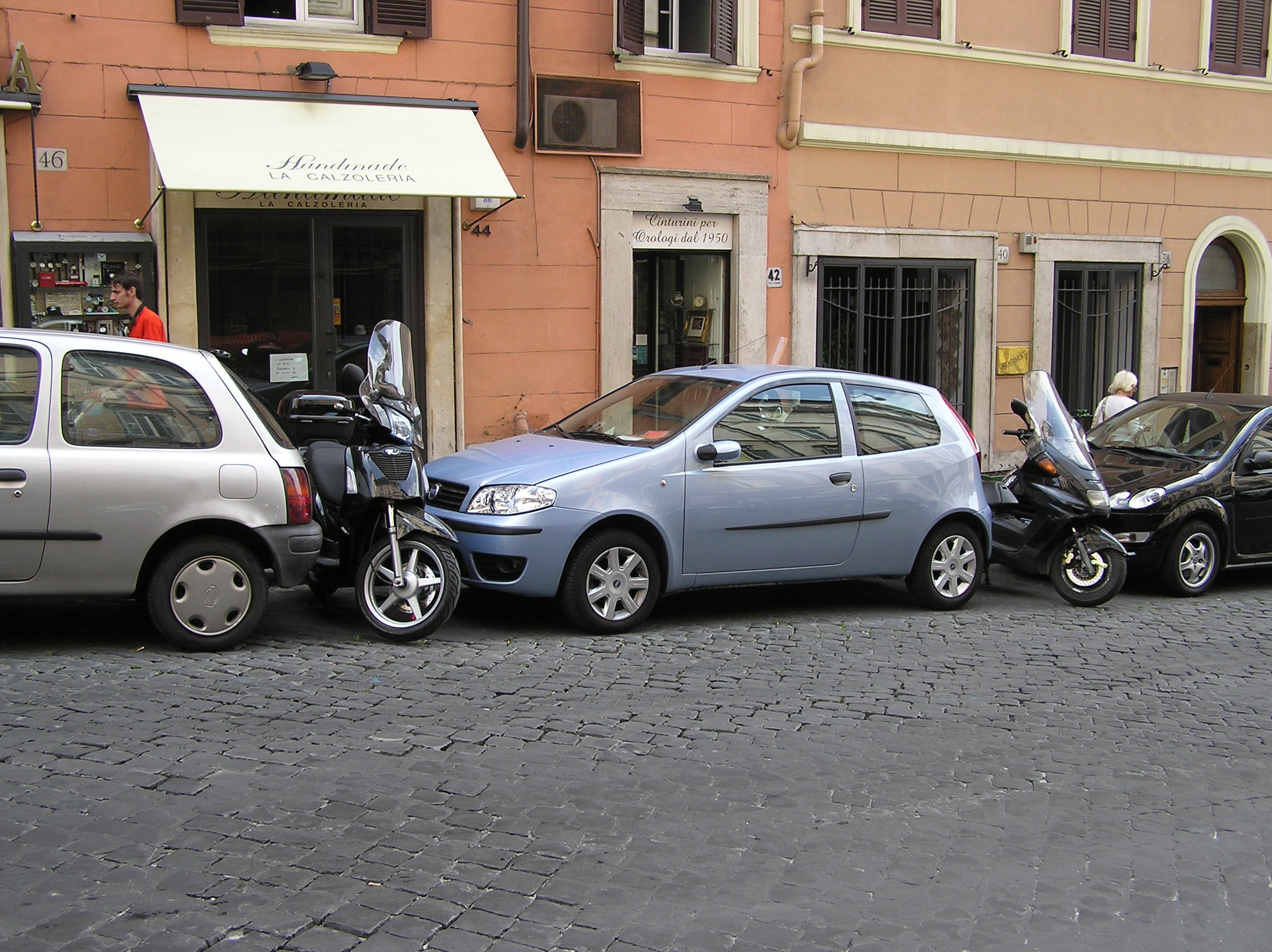 Parking in central Rome, Italy. Although the cars leave a space, this is soon filled with a scooter or motor bike making it impossible for the cars to leave. What happens when the driver returns to the car I do not know!